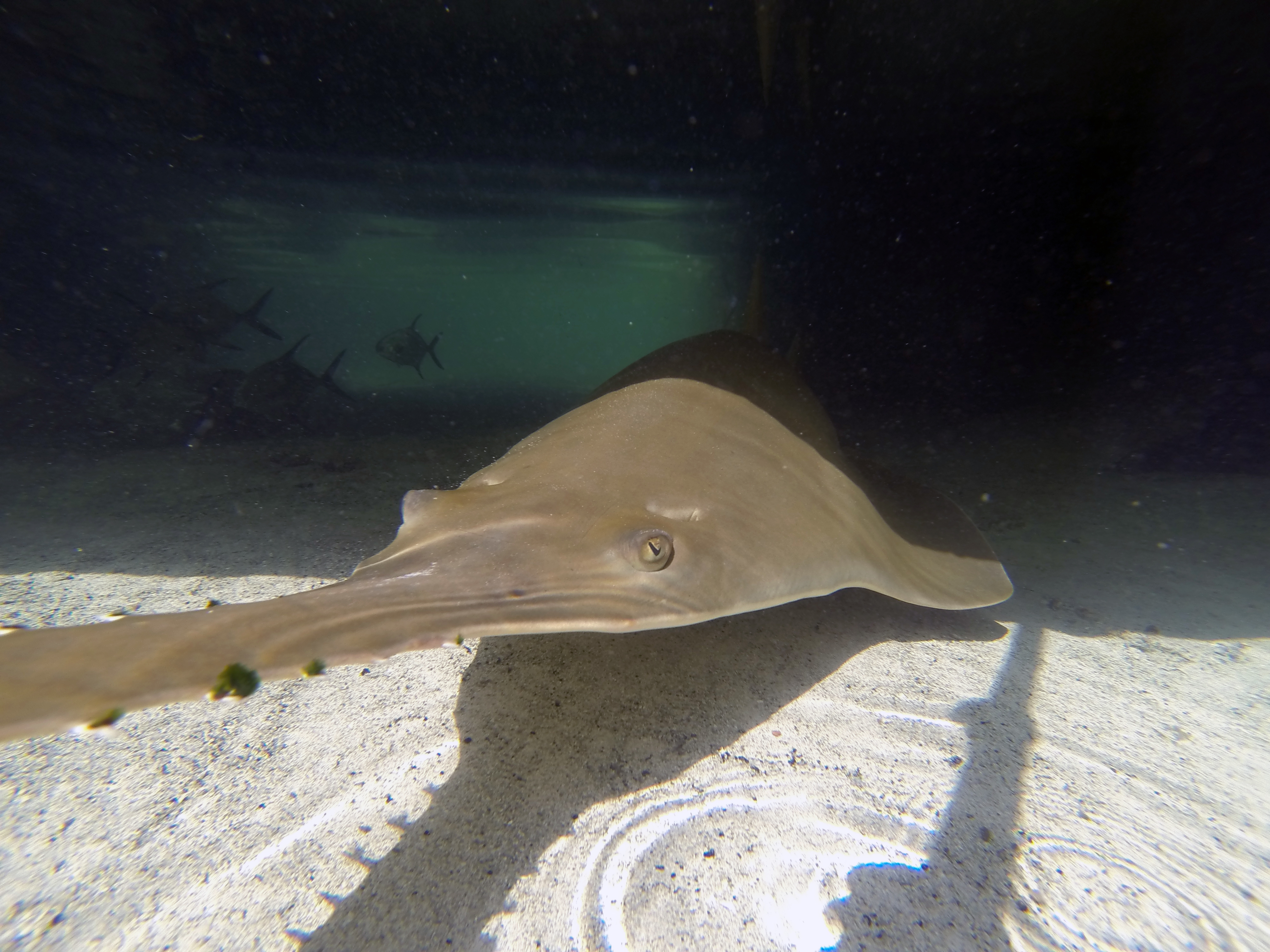 Sawfish Atlantis Paradise Island Photo D Ramey Logan